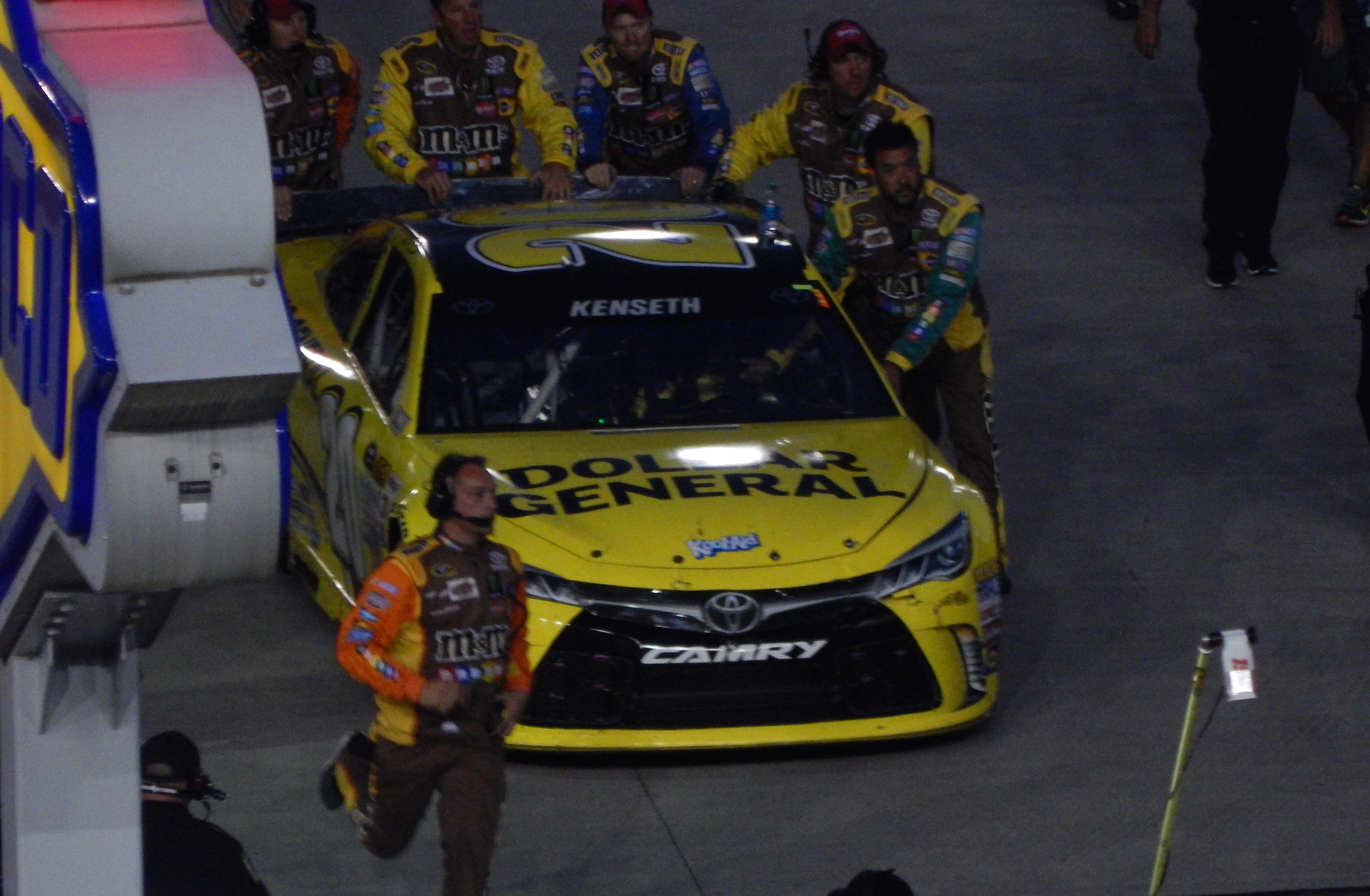 Matt Kenseth's hope of sweeping Bristol came up short when his engine let go on lap 111.